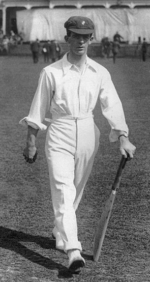 Australian batsman Johnny Taylor (1895 - 1971), a member of the 1921 Australian touring team, walks out to bat.